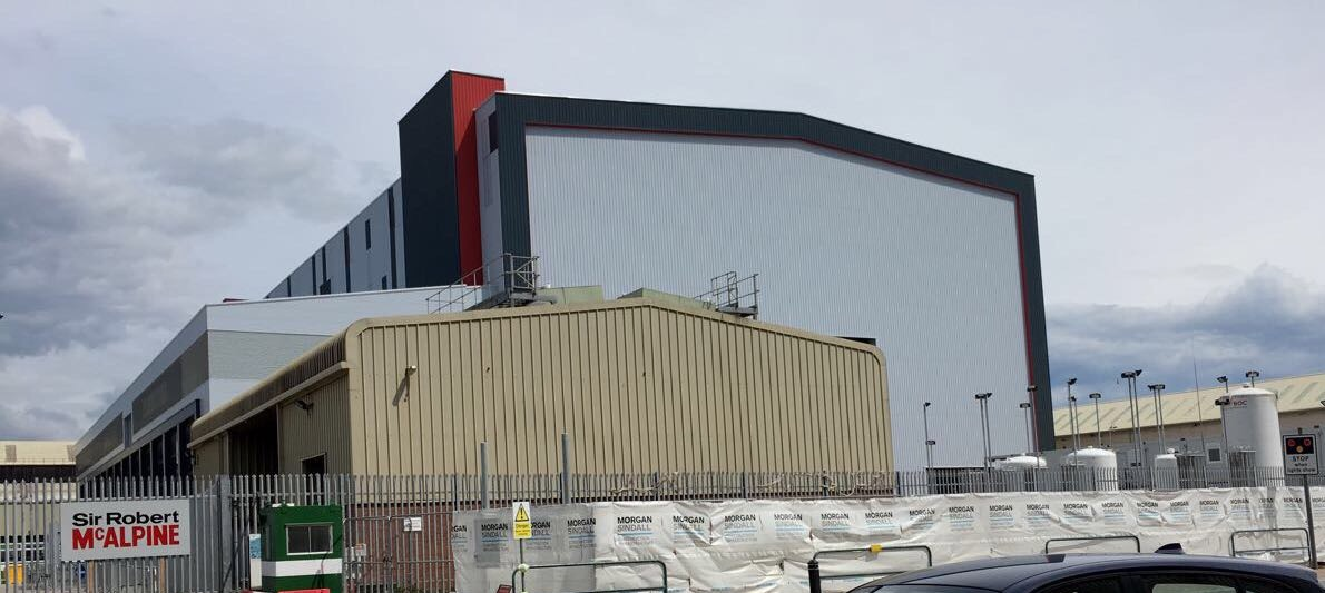 The Central Yard Facility at BAE Systems, Barrow-in-Furness